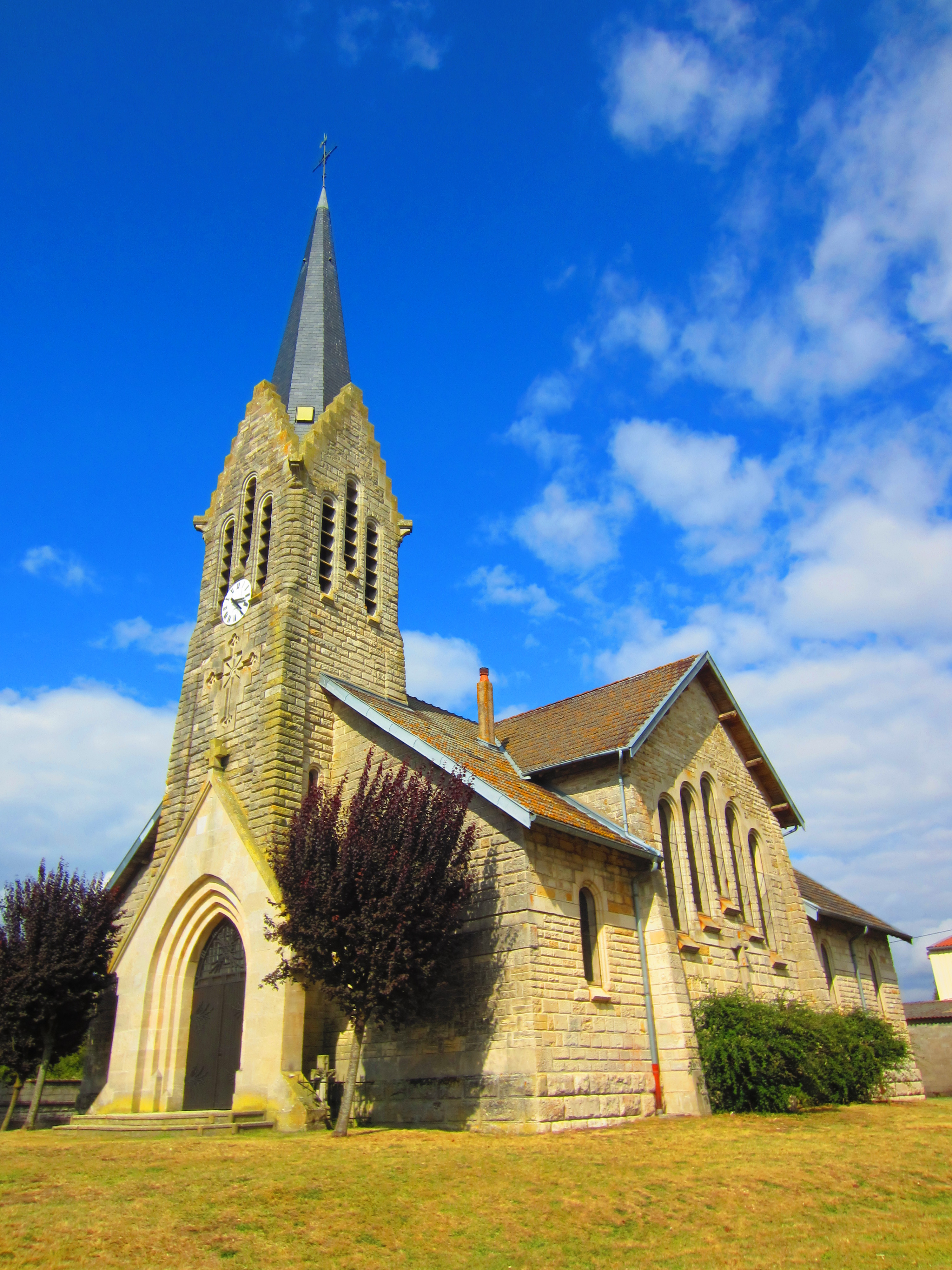 St Hilaire Woevre church